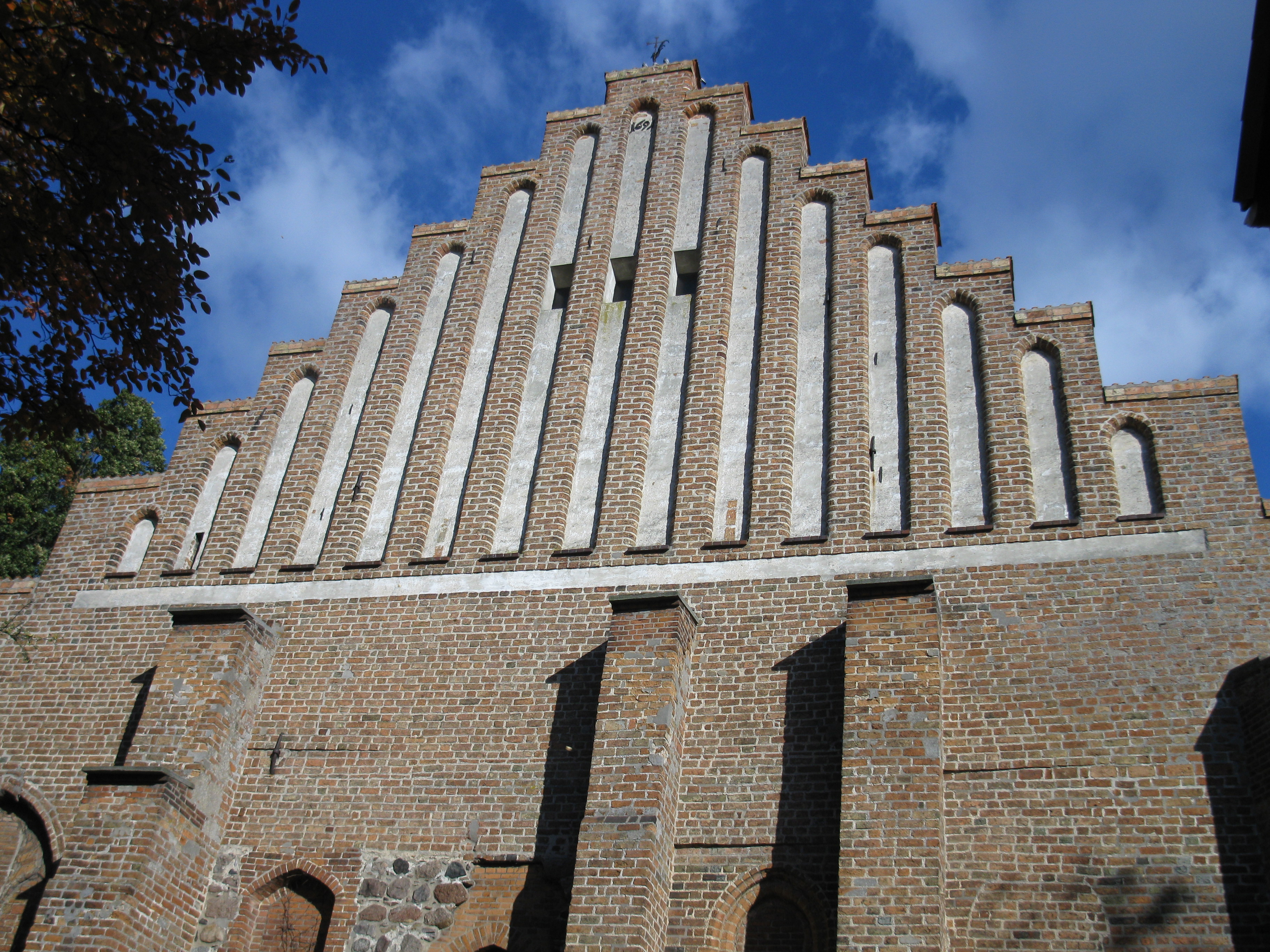 Protestant Church, Luechow, Germany